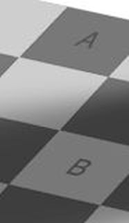 Cropped version of checkerboard illusion by Edward Adelson